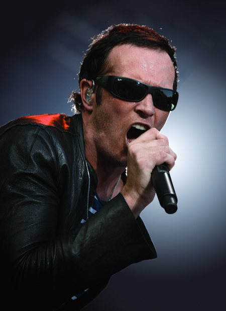 Scott Weiland performing with Stone Temple Pilots at the OpenAir Festival in St. Gallen, Switzerland on June 26, 2010